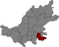 Location of Montferri in Alt Camp